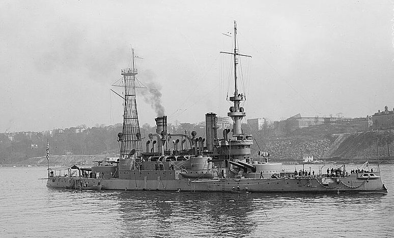 glass negative of USS Indiana (BB-1); cropped and cleaned up